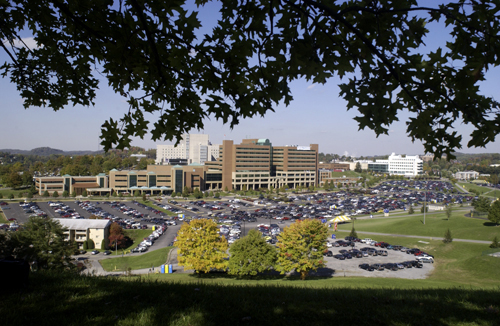 West Virginia University Health Sciences Campus and Ruby Memorial Hospital